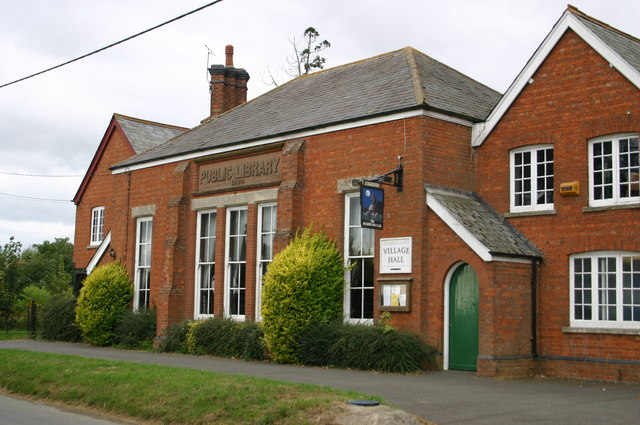 Public Library Botolph Claydon Library, Village hall and Mushroom Club Botolph Claydon